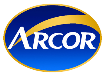 The logo of Grupo victoria